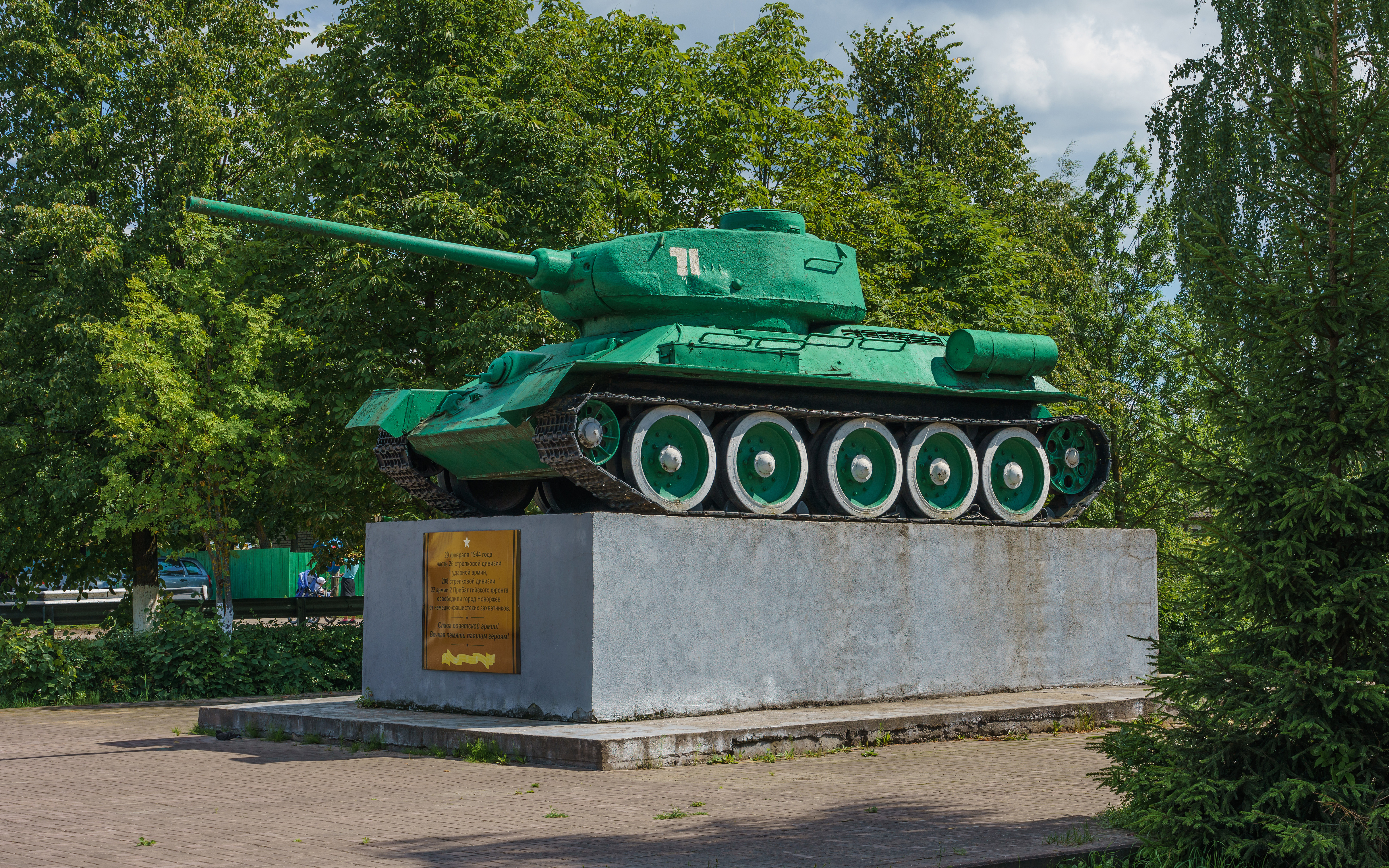 Monument featuring T-34 tank in Novorzhev, Pskov Oblast, Russia.